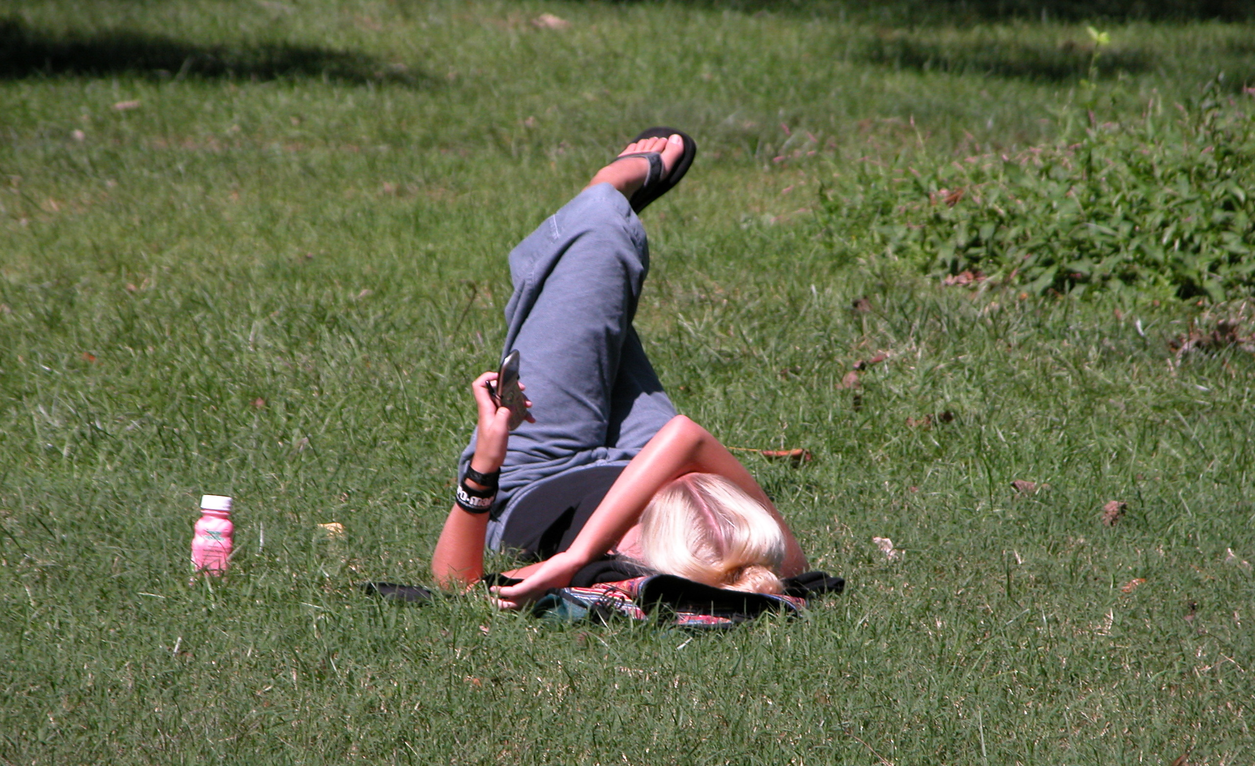 A blonde woman using a mobile phone on the McCorkle Place lawn at University of North Carolina in Chapel Hill, North Carolina.